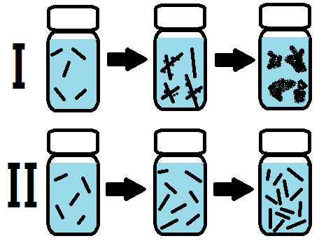 Visual representation of the hetero nucleation and the homo nucleation pathways.